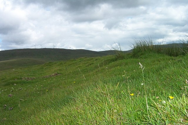 Deil's Dyke on Dalhanna Hill, New Cumnock Deil's Dyke earthwork Possibly a boundary of baronial forest